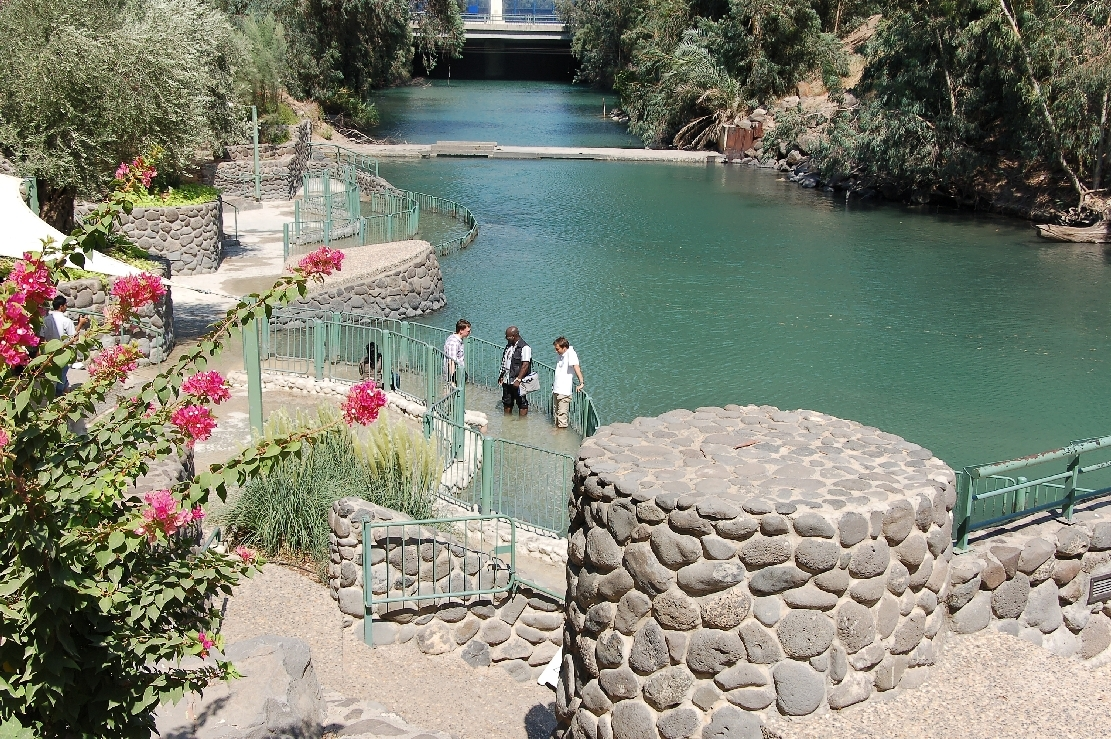 Impressions Wikimania 2011 Nazareth-Galilee Tour